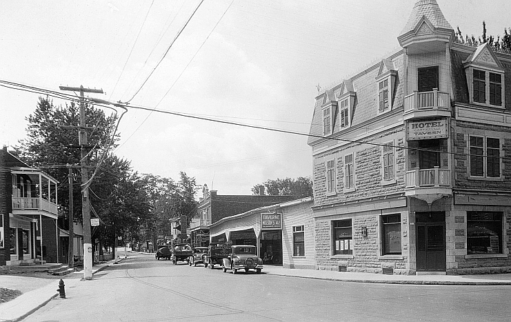 Hotel Cartierville, on Gouin Boulevard, corner of Lachapelle, in Cartierville, Quebec.